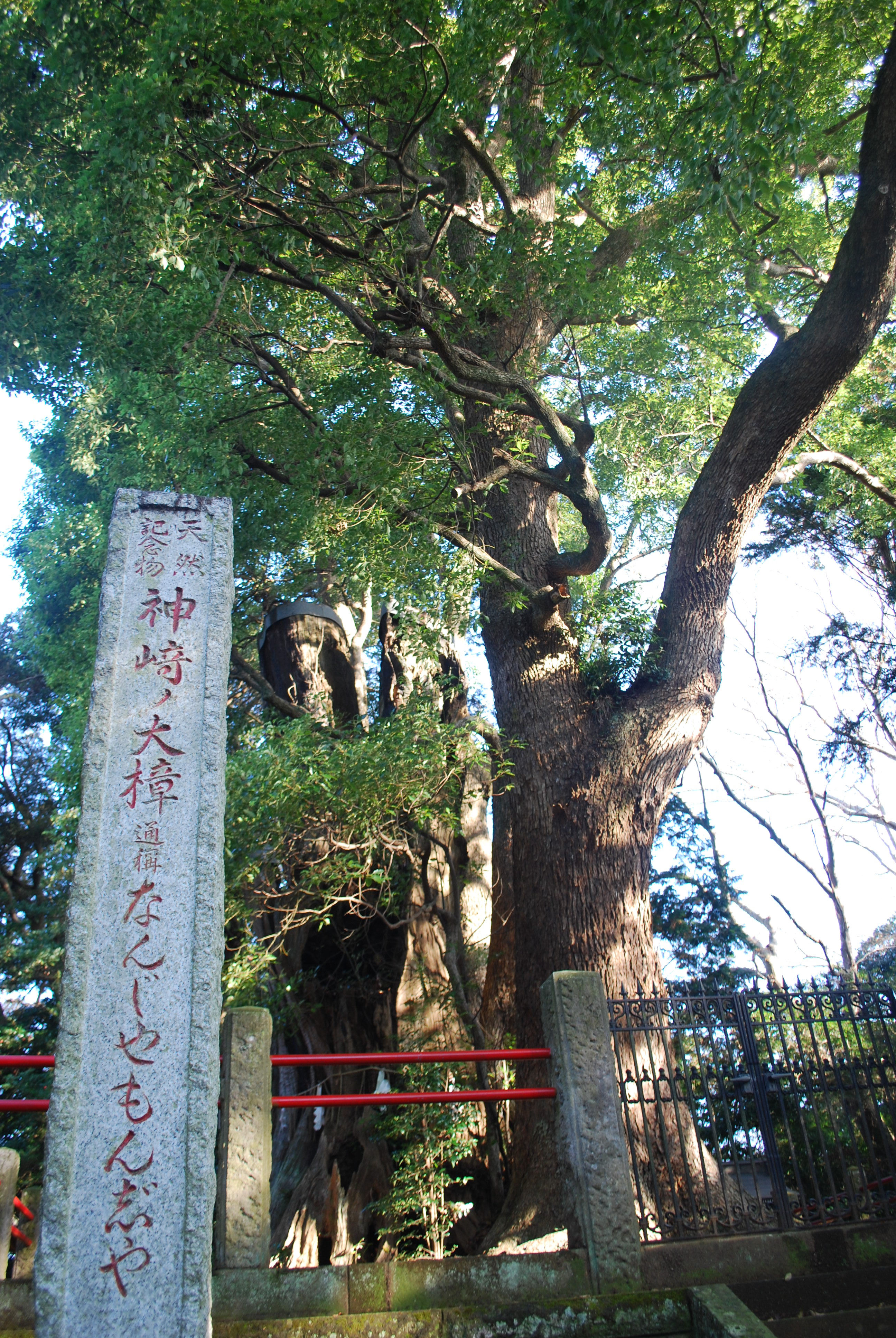 NanjyaMonjya-tree,Kozaki-town,Japan